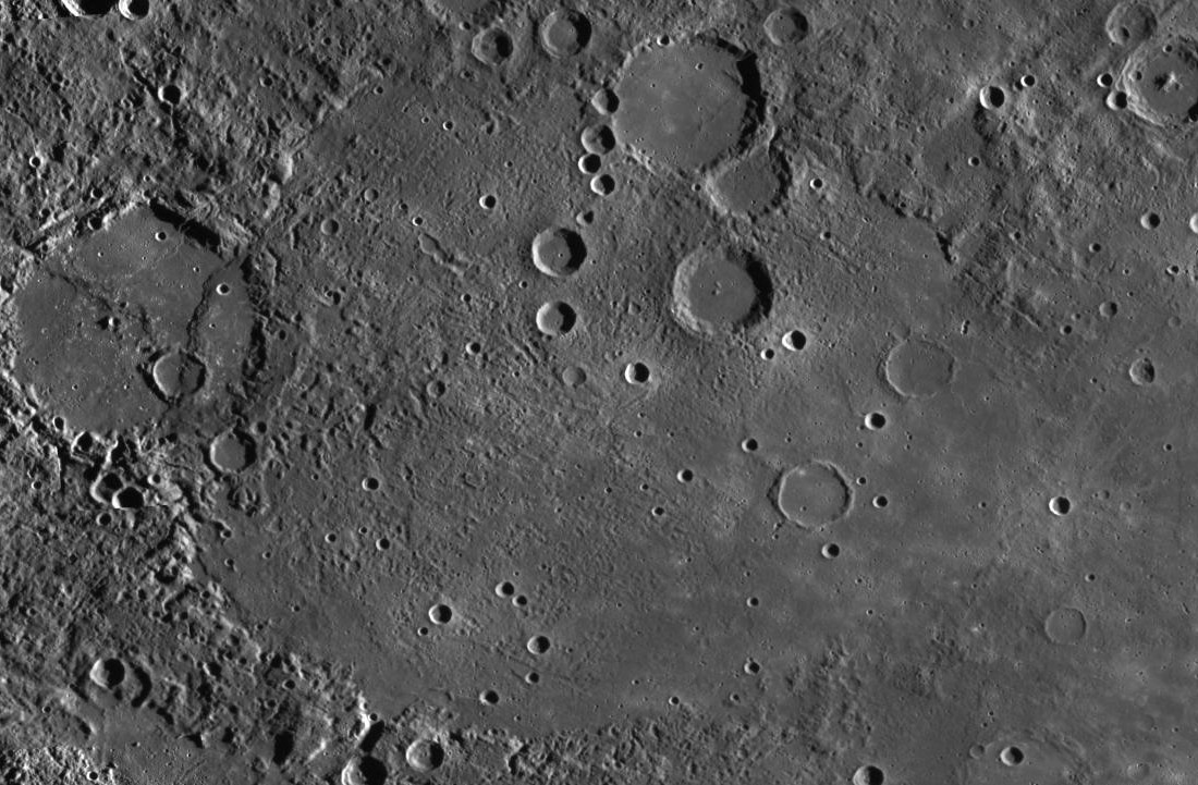 Aneirin crater, on Mercury. MESSENGER Wide Angle Camera mosaic.